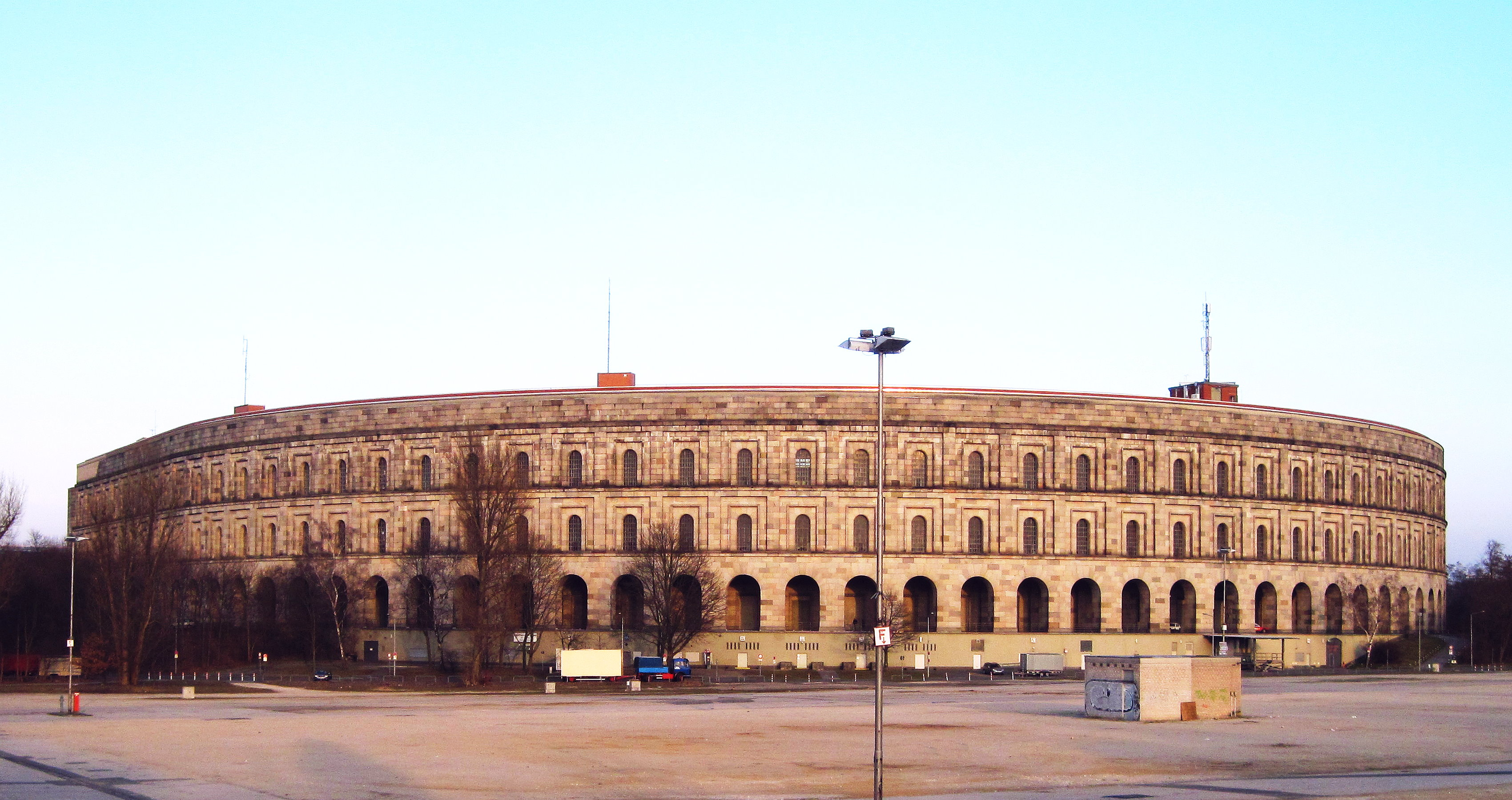 Ruin of the Congress Hall at the Nazi Party Rally Grounds Nuremberg - Photo Wolfgang Pehlemann IMG_0955